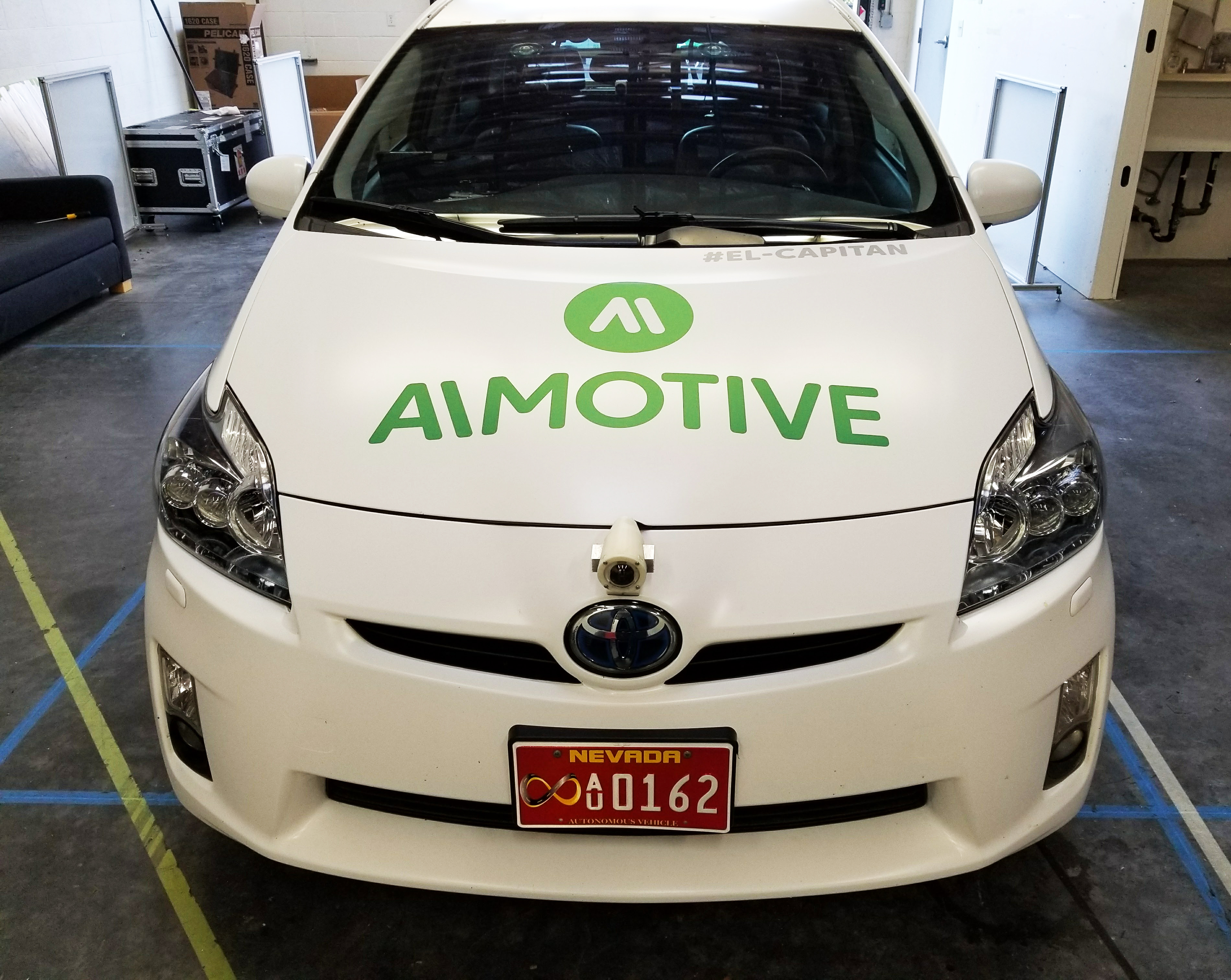 An AImotive prototype Toyota Prius equipped with autonomous vehicle testing plates issued by the State of Nevada.